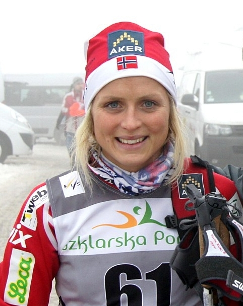 Therese Johaug, cross-country skier from Norway